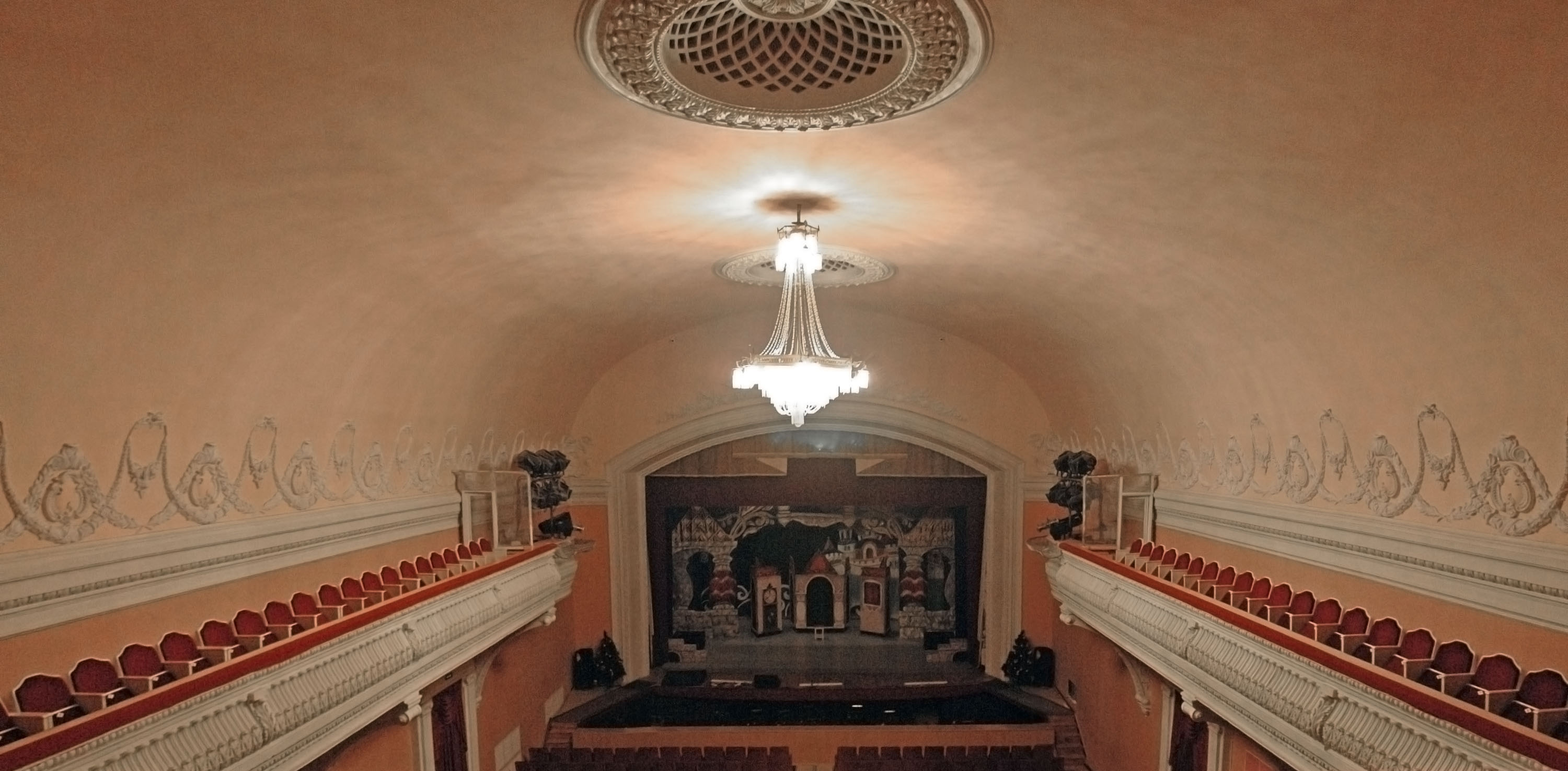 Auditorium and stage of operetta theater in Pyatigorsk